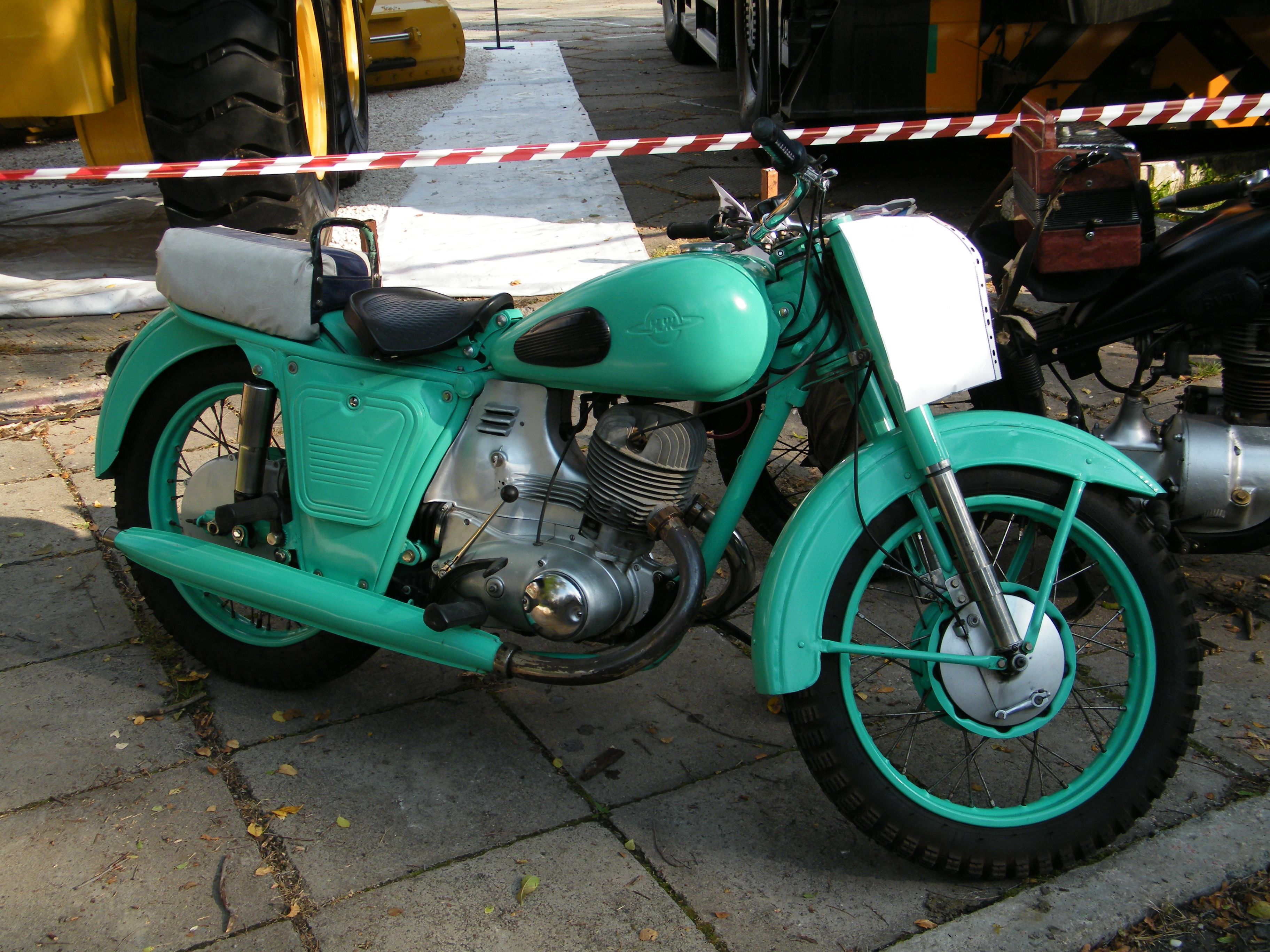 Мотоцикл ИЖ-56